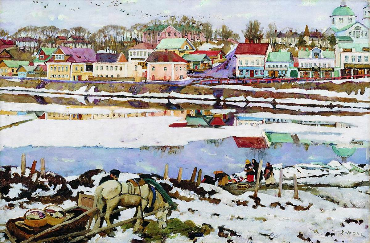 Town of Torzhok. 1914